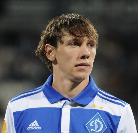 Denys Harmash